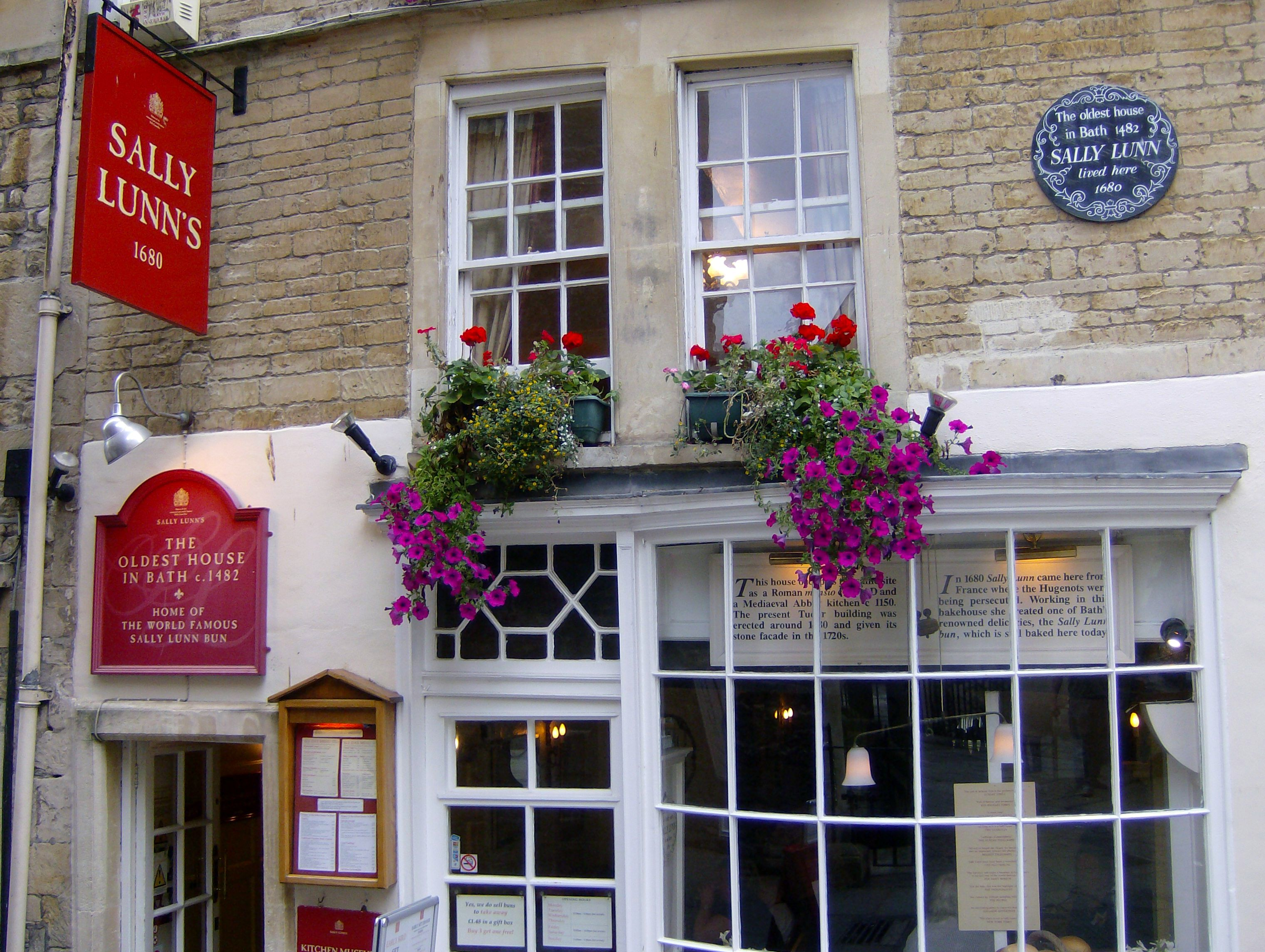 Sally Lunn's House, the oldest house in Bath, home of the Sally Lunn Bun